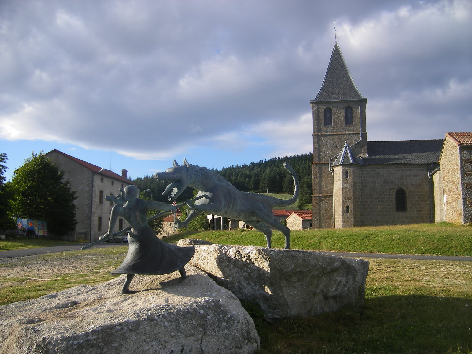 Auvers, left: catholic church, right: municipality, center: monument of the Gévaudan beast